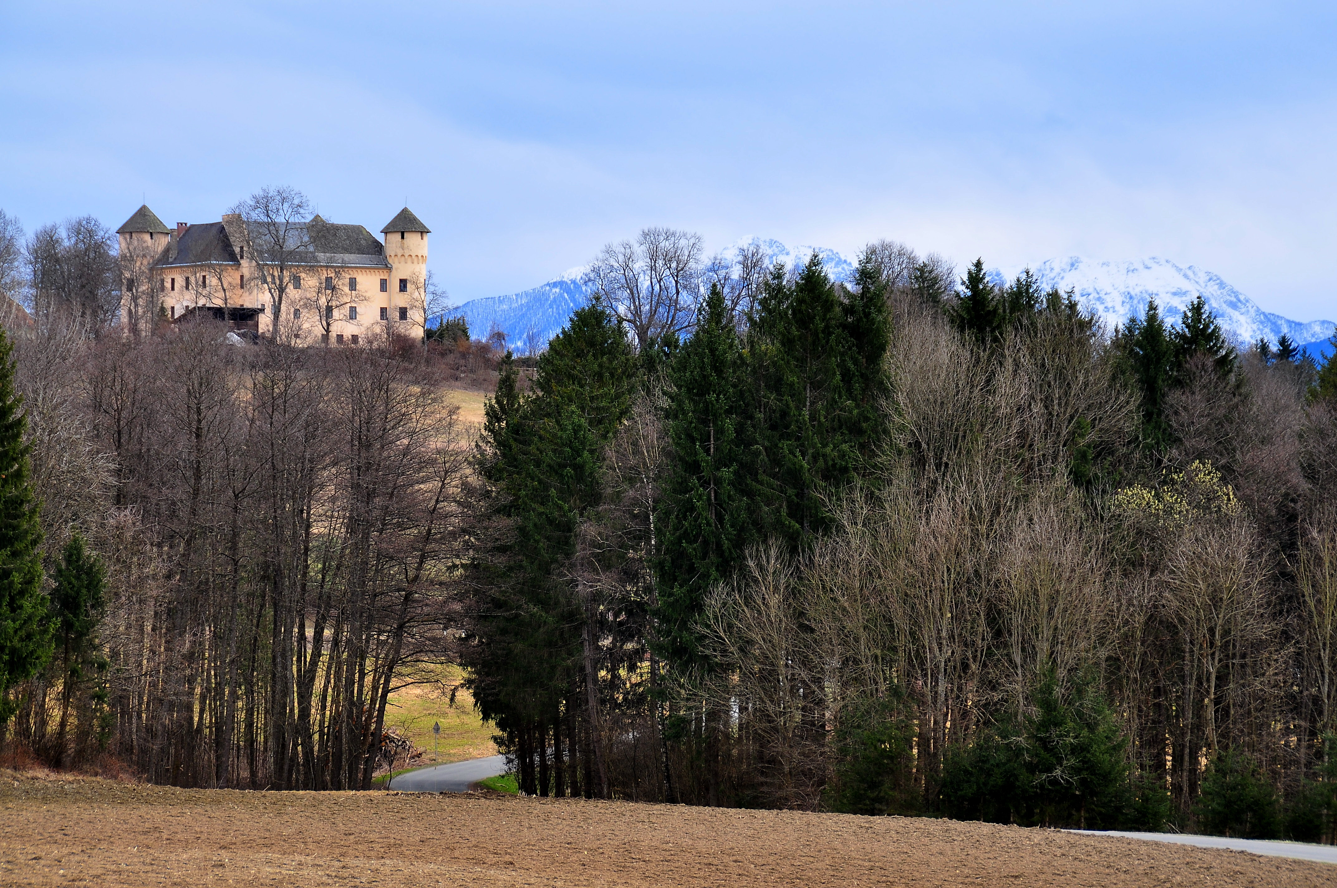 View from the west at the “Castle Tentschach”, situated in the 14th district Woelfnitz of the Carinthian capital Klagenfurt on the Lake Woerth, Carinthia, Austria